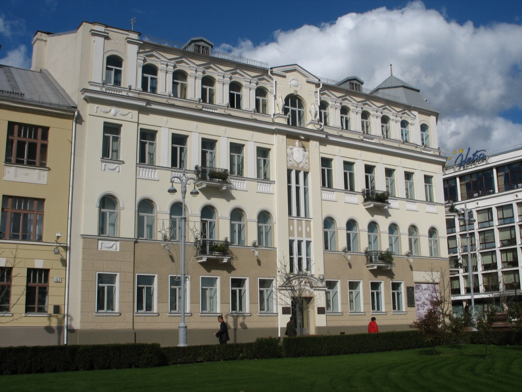 Bilding of Henryk Julian Gay, Minskm Savieckaja 19